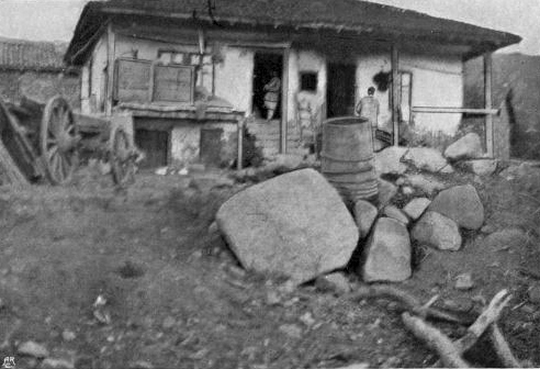 Original description: "Where I spent a comfortless night in Bulgaria"